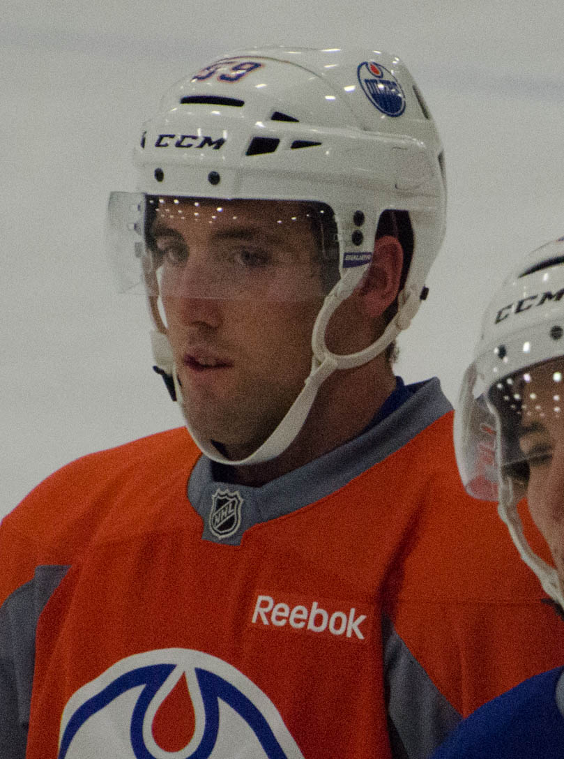 Brad Hunt at an Edmonton Oilers practice, Sept. 27, 2014